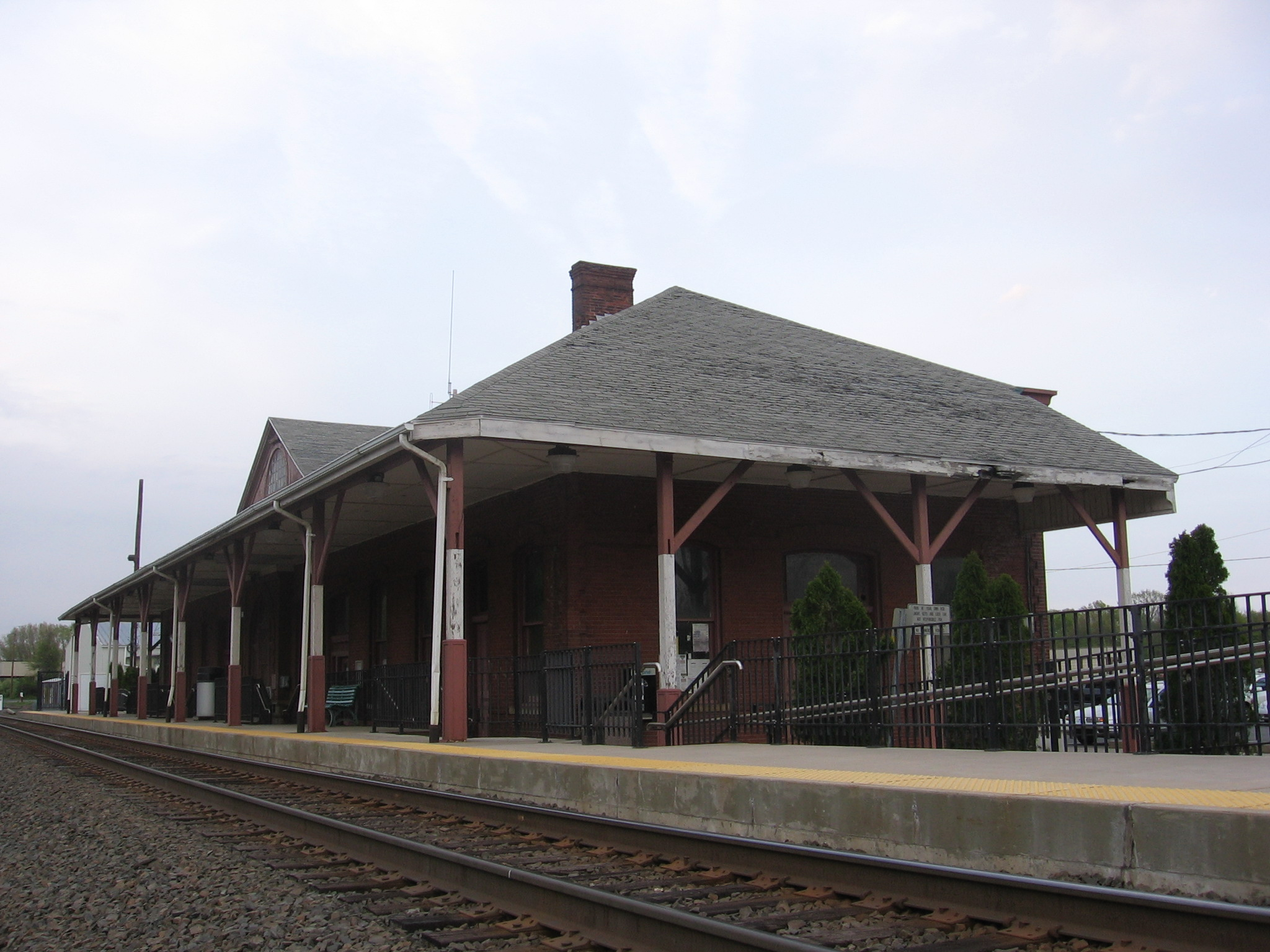 The Amtrak station in Berlin, Connecticut.